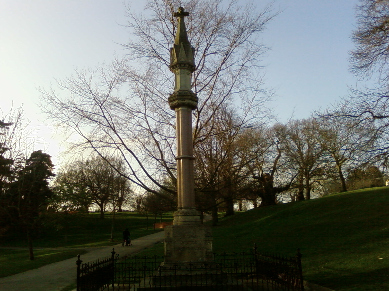 Taken by myself with a Samsung E900 camera phone, it's all I got but better than nothing. Taken 17:45 07/04/07. I release this image into the public domain. If someone can take a better picture feel free to overwrite, so long as it remains in the public domain.